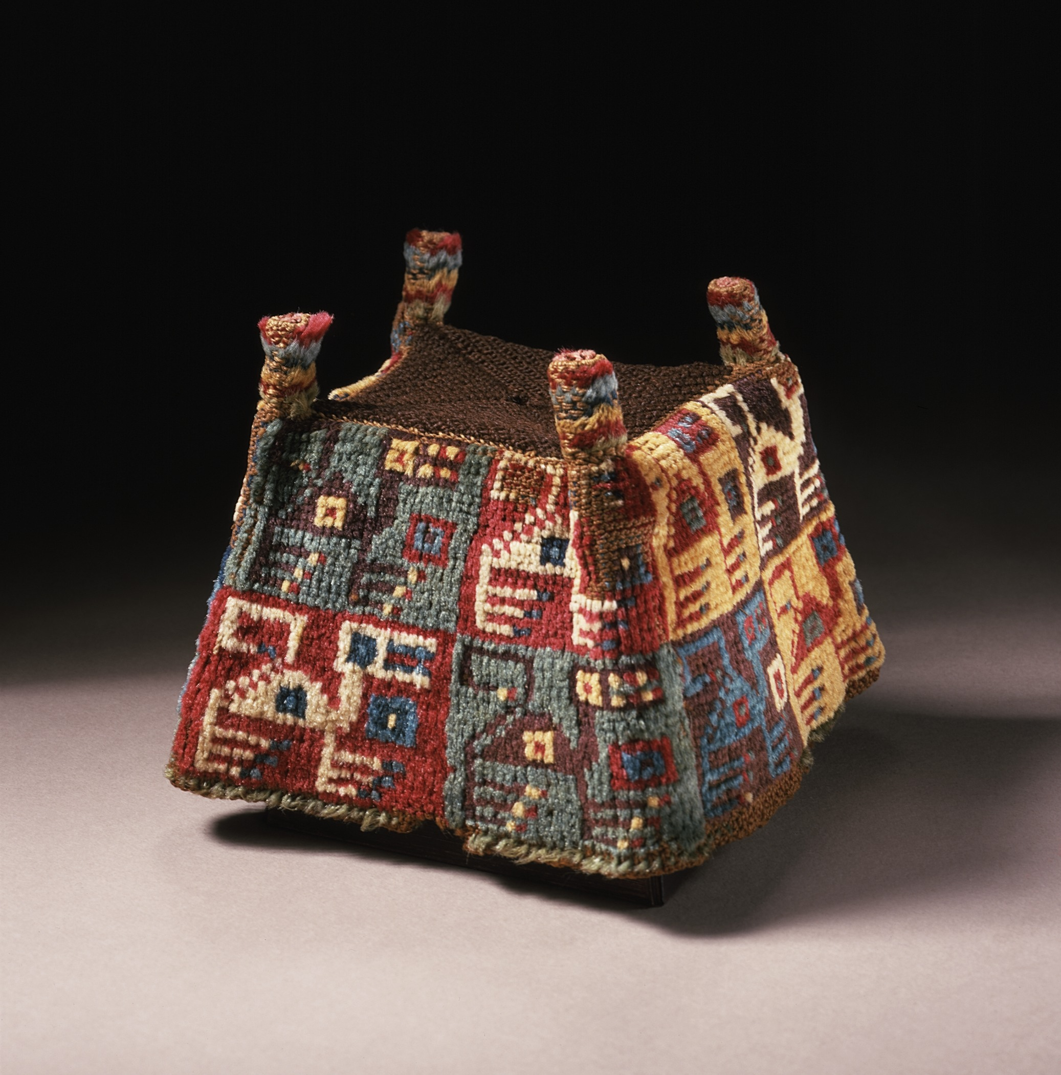 Peru, South Coast, Wari, 600-800 Costumes; Accessories Camelid fiber in larkshead knotting with cut pile 5 1/2 x 5 x 5 in. (13.97 x 12.7 x 12.7 cm) Costume Council and Museum Associates Purchase (M.79.81.2) Costume and Textiles